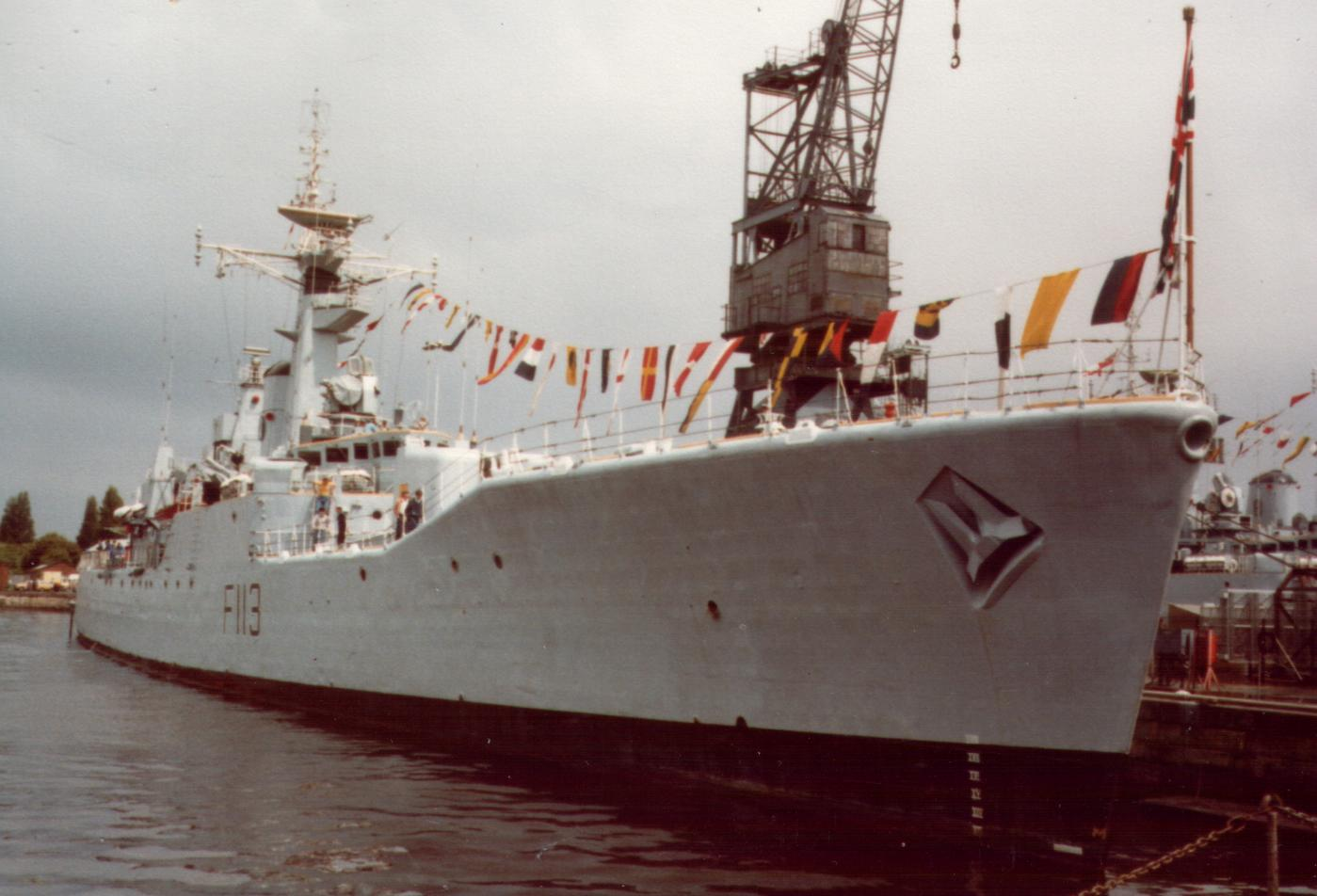 HMS Falmouth at Chatham Dockyard in 1981